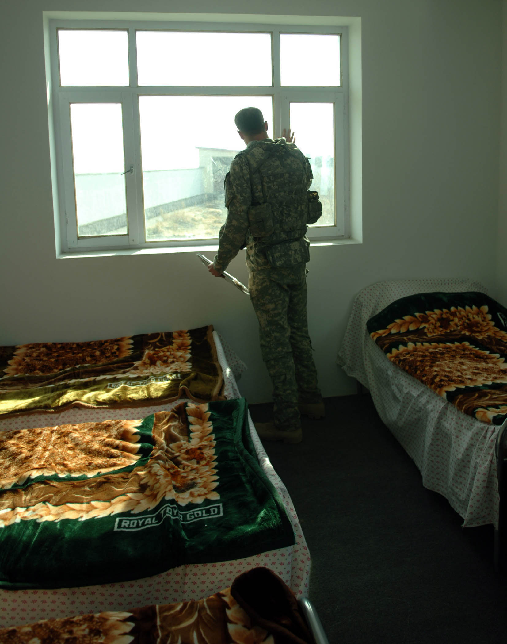 Army Capt. Jordan Berry, the Bagram Provincial Reconstruction Team's civil affairs team leader for Afghanistan’s Kapisa province, tours a newly opened Afghan women's shelter Dec. 13, 2007. The Bagram PRT provided more than $86,000 in support of the project, which was completed by local contractors. Photo by Staff Sgt. Mike Andriacco, USAF